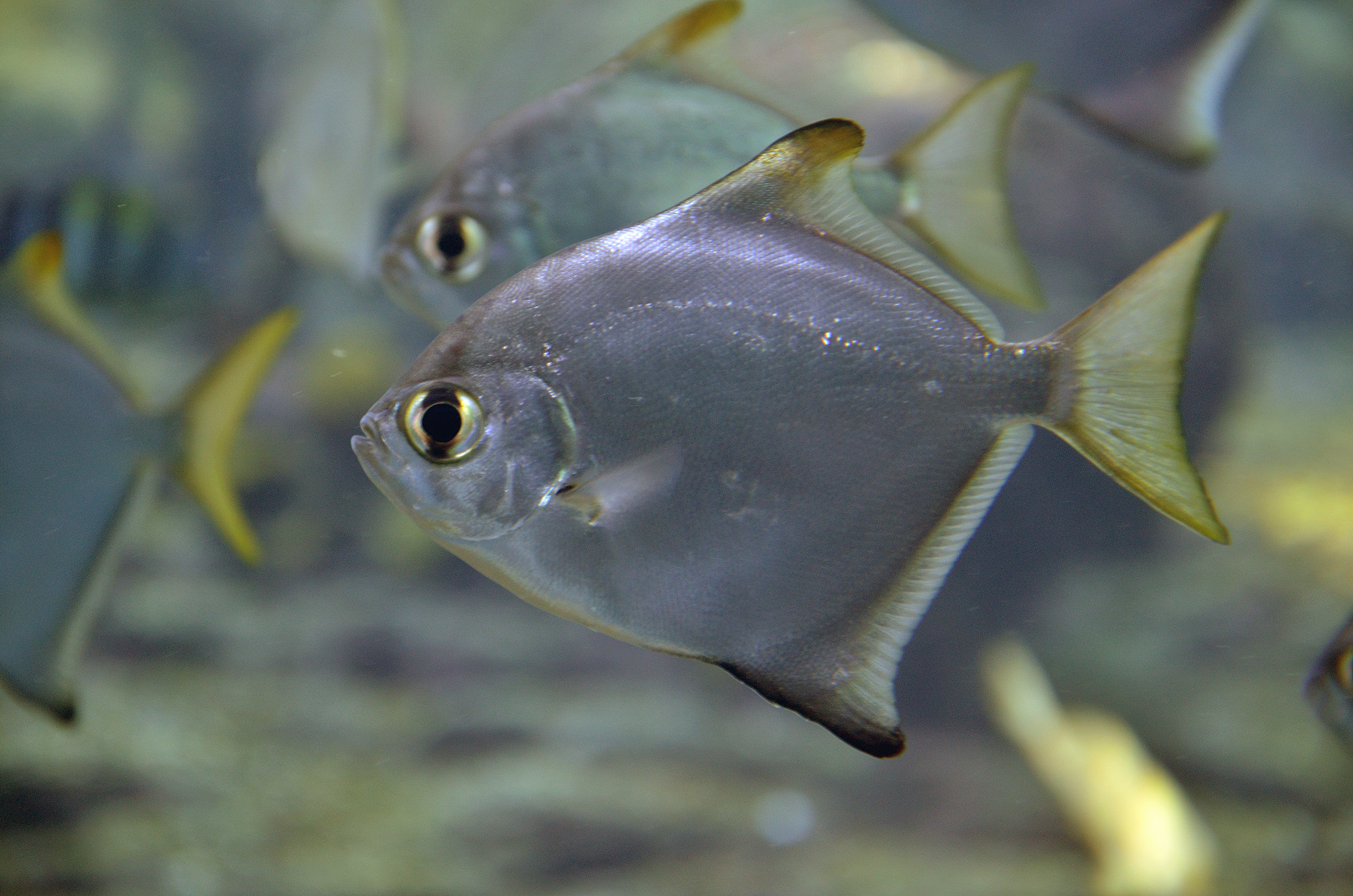 in the UShaka Marine World Durban